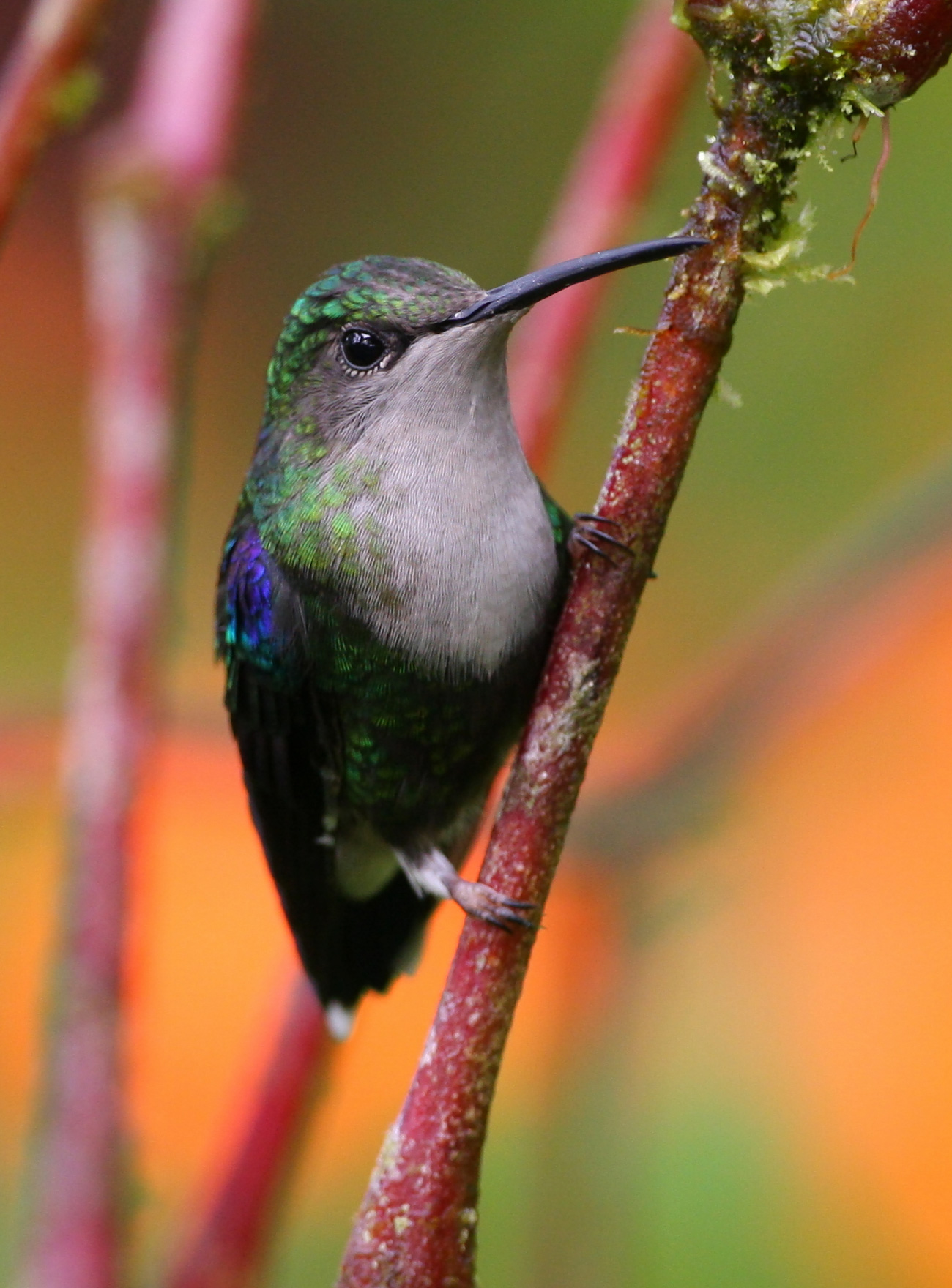 Female Green-crowned woodnymph, (Thalurania fannyi), Milpe Reserve, NW Ecuador